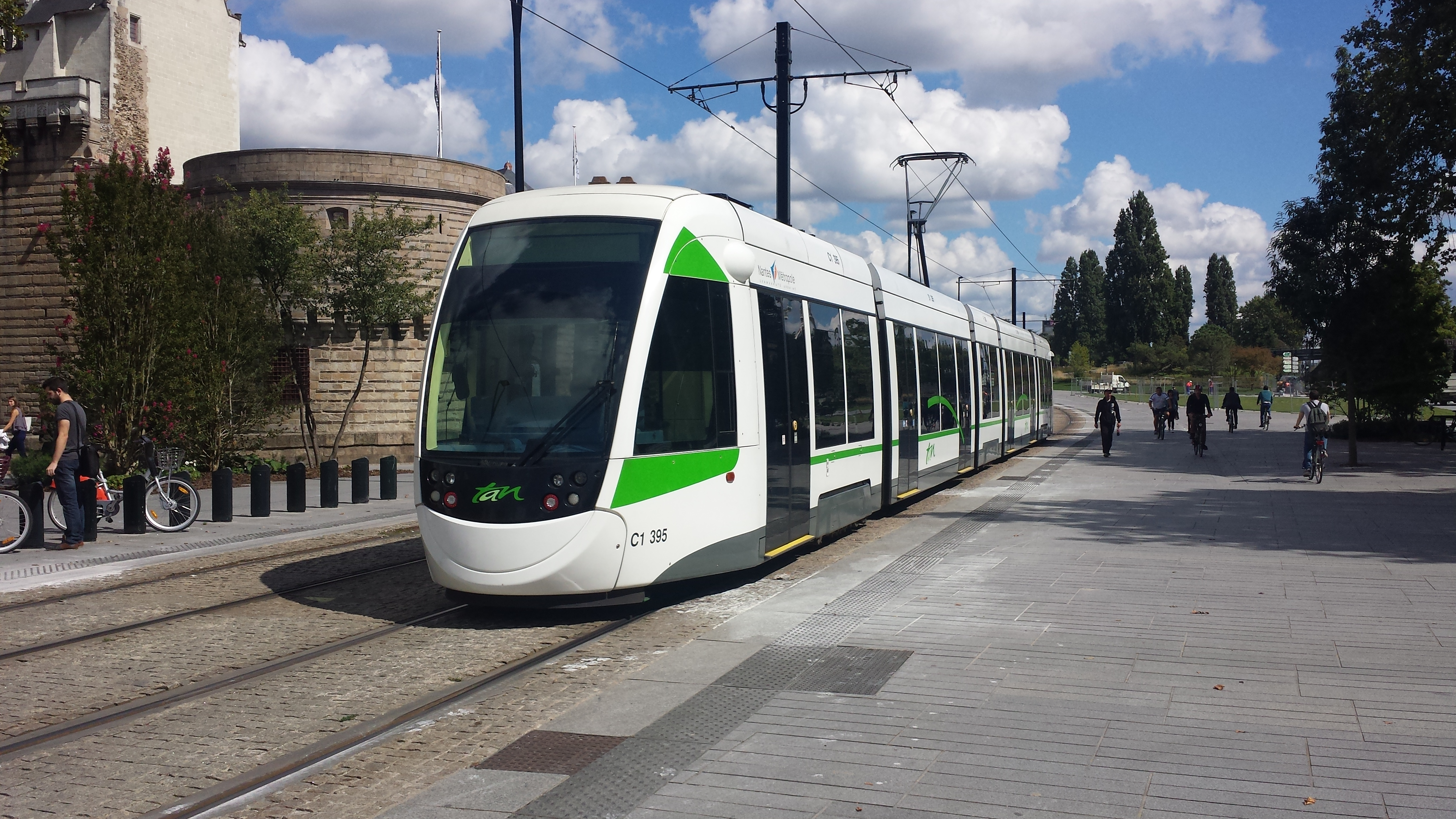 Urbos 3 tram outside the Château des ducs de Bretagne in Nantes